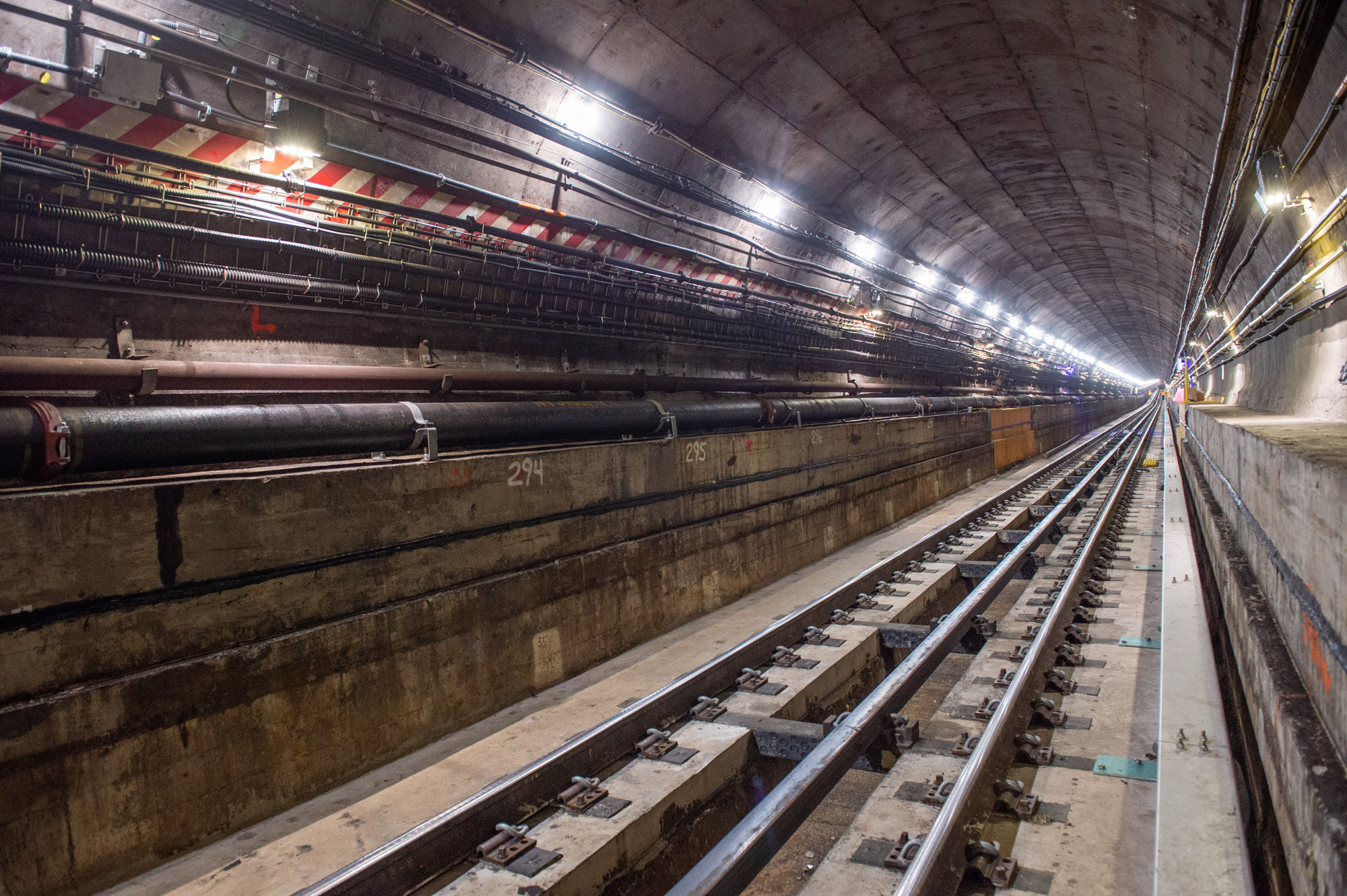 Governor Andrew M. Cuomo announced on April 26, 2020 that the nation-leading, innovative L Project tunnel rehabilitation had been completed three months earlier than the most aggressive original schedule of 15-18 months, and under budget, saving more than $100 million and with no shutdown. As shown in this photo, the L Project tunnel rehabilitation plan employed new construction methods and technology that had been used in other transit systems around the world and several industries, yet never in a similar project in the United States. The methods, recommended by engineering faculty from Columbia and Cornell Universities, allowed NYC Transit to continue running subway service in the tunnel throughout the construction so regular weekday commutes of the vast majority of L customers between Manhattan and Brooklyn were not disrupted, including during the busiest times. Photo: Trent Reeves/MTA Construction & Development